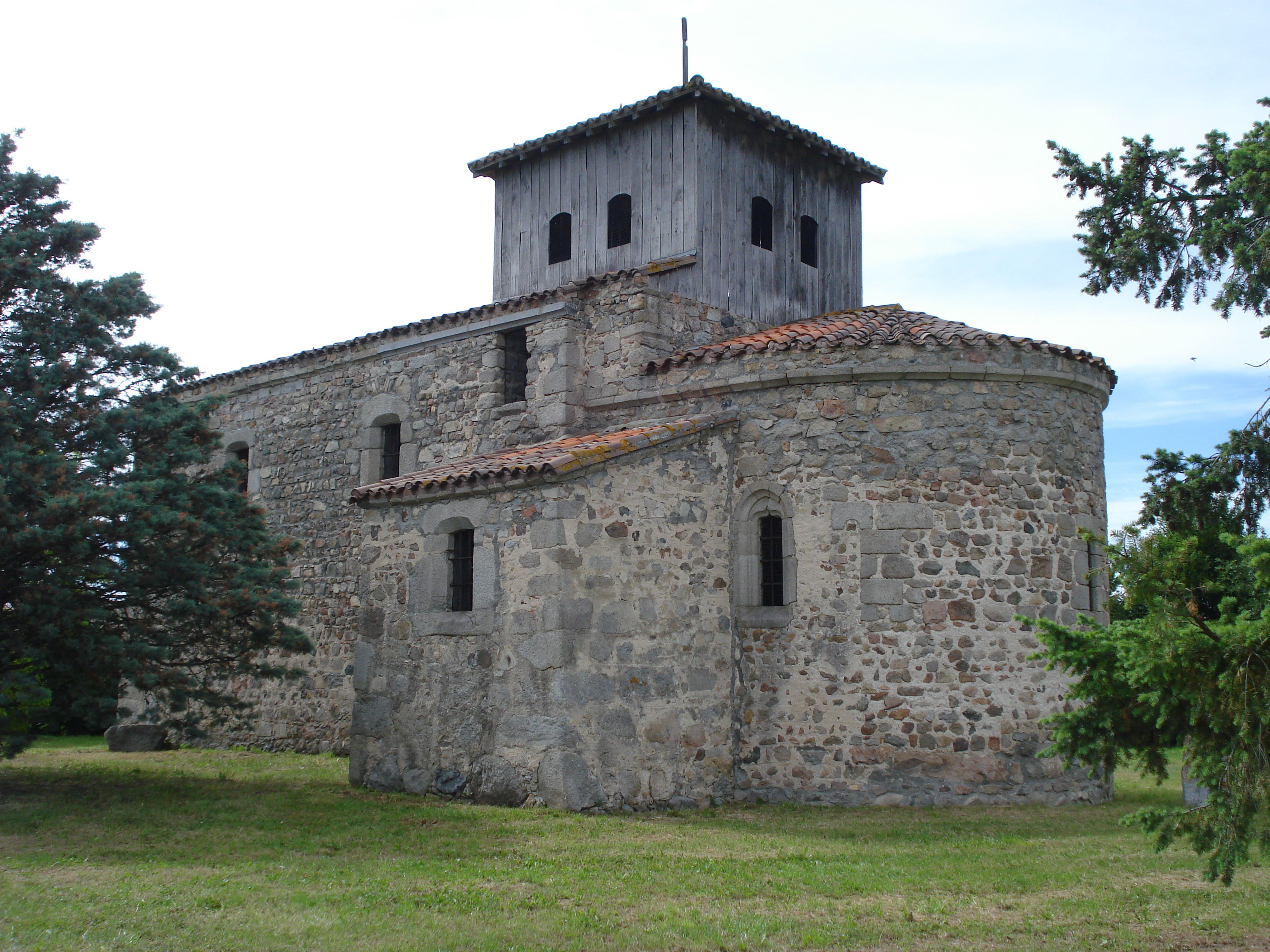 Ste Foy-St-Sulpice (Loire, Fr), St.Sulpice chapel.